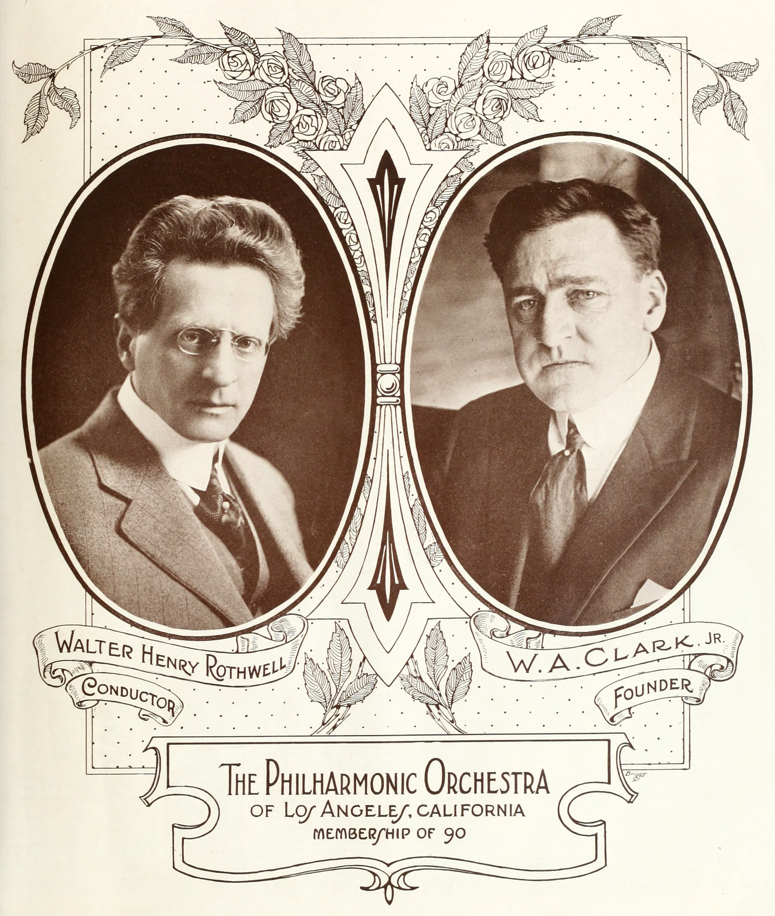 Pacific Coast Musical Review - November 1, 1919 cover. Featuring Walter Henry Rothwell and W. A. Clark, Jr.; conductor and founder (respectively) of the Philharmonic Orchestra of Los Angeles